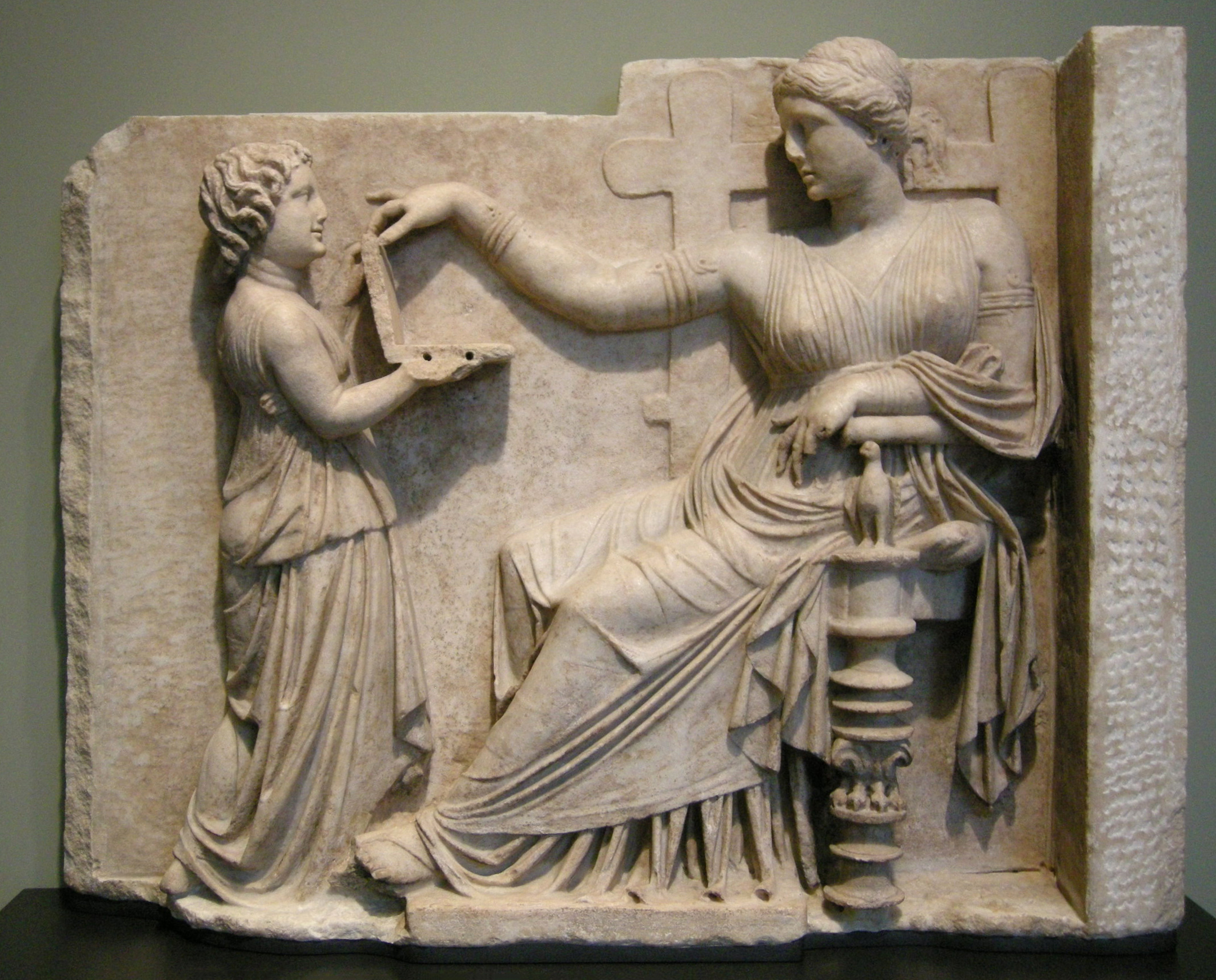 Gravestone of a woman with her slave child-attendant (Greek, c. 100 BC) - detail. Getty Villa, Usa